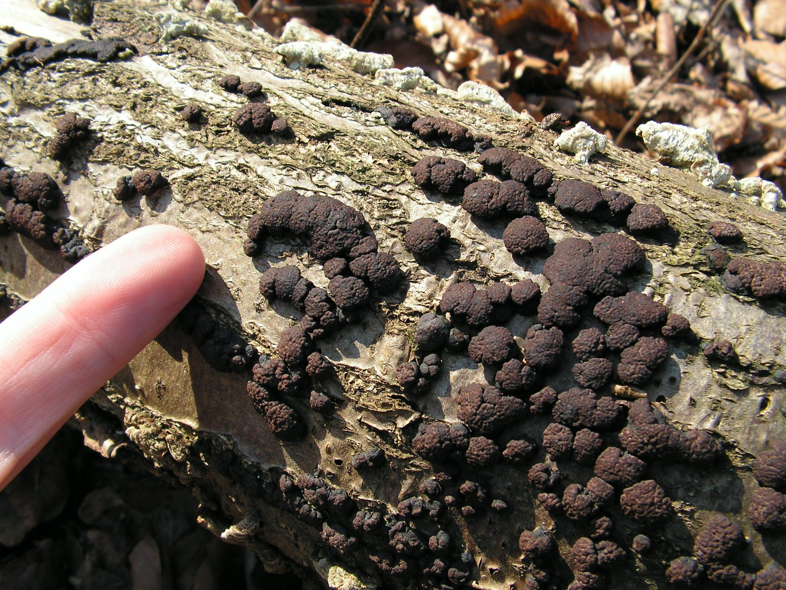 A species of Hypoxylon, probably Hypoxylon fragiforme on a dead tree branch in the Netherlands.